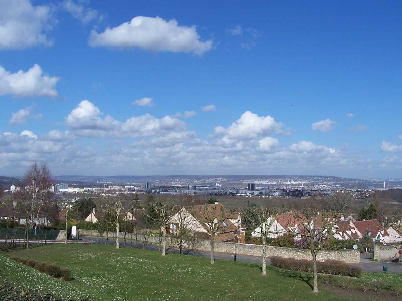 Large sight of Poissy (Yvelines, France) from the heights of Chambourcy